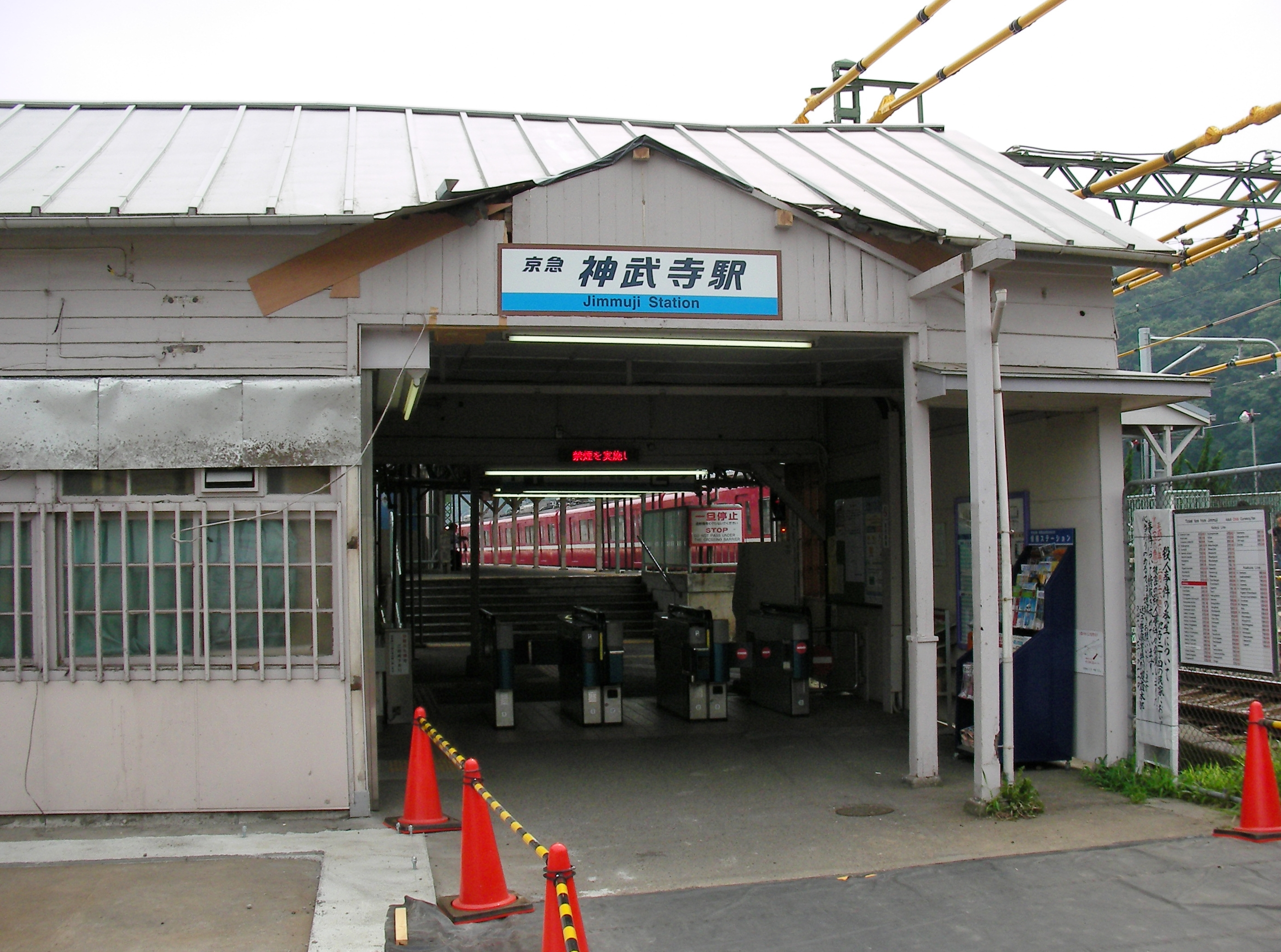 Jinmuji Station entrance (before rebuilding)